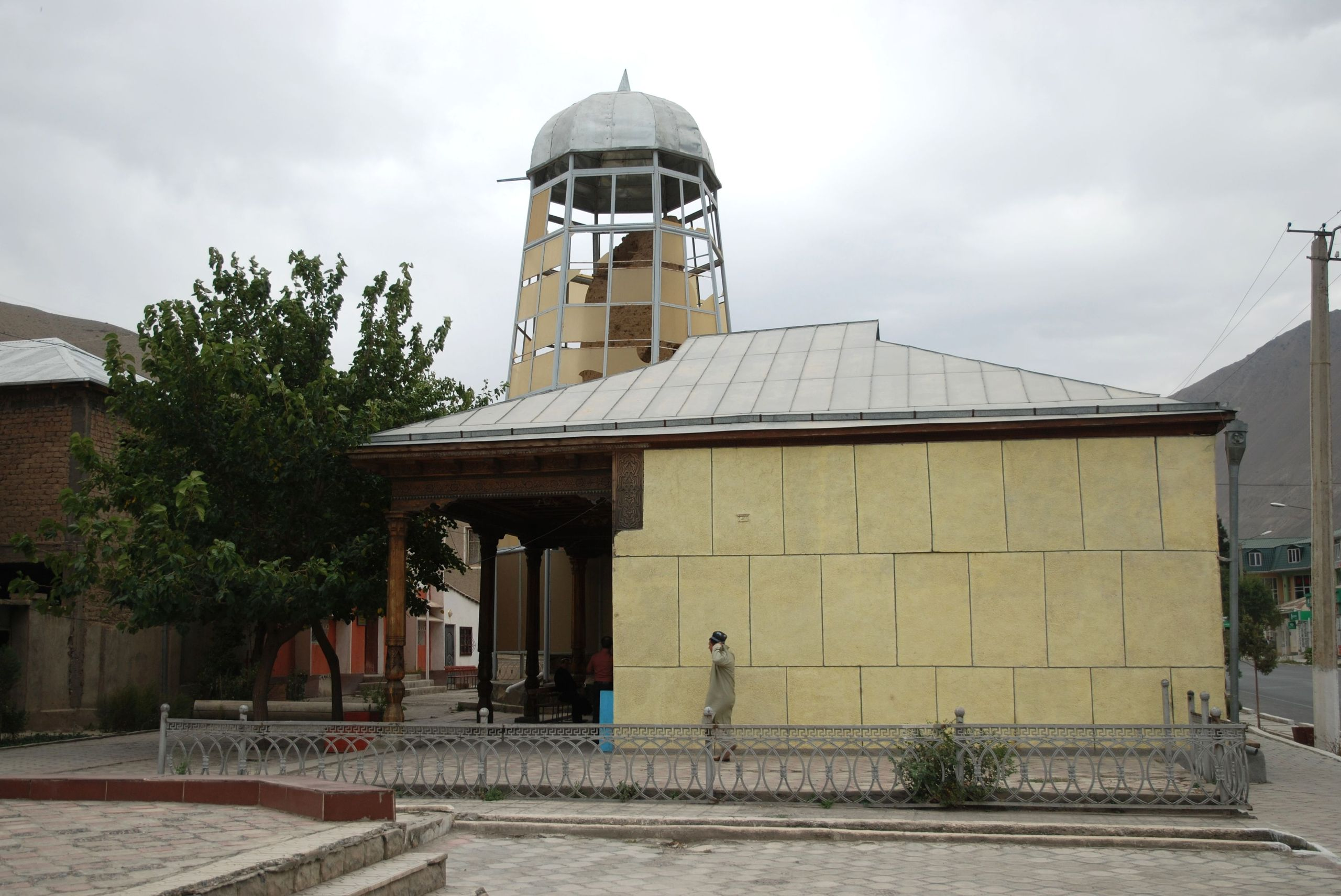 Ayni, mosque